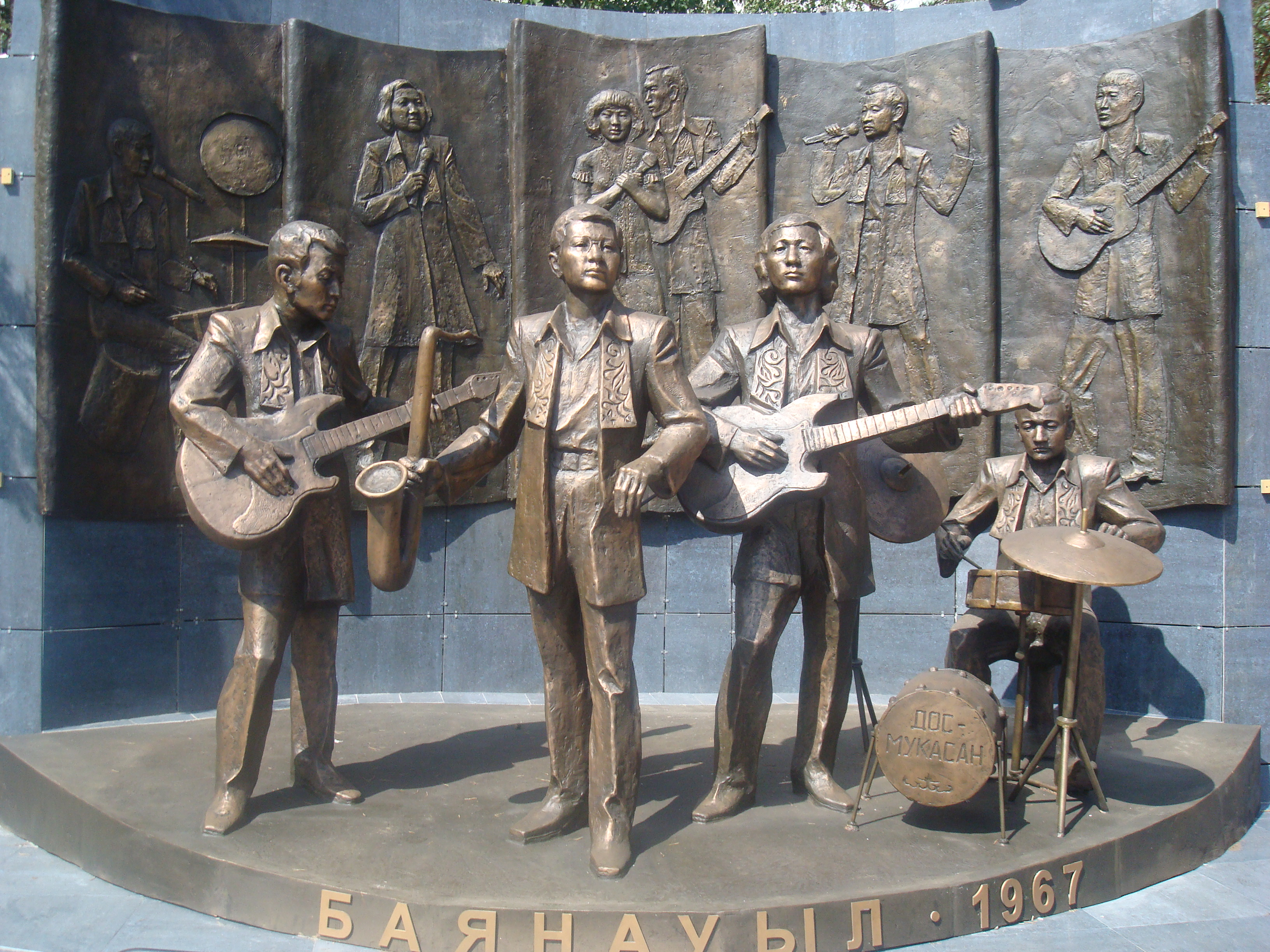 Monument of 'Dos Mukasan' music band in Pavlodar, author Sergebayev Yesken